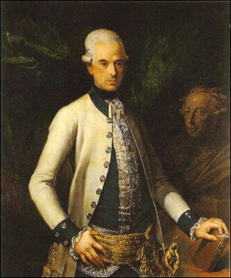 Portrait of Marquis Federico Manfredini